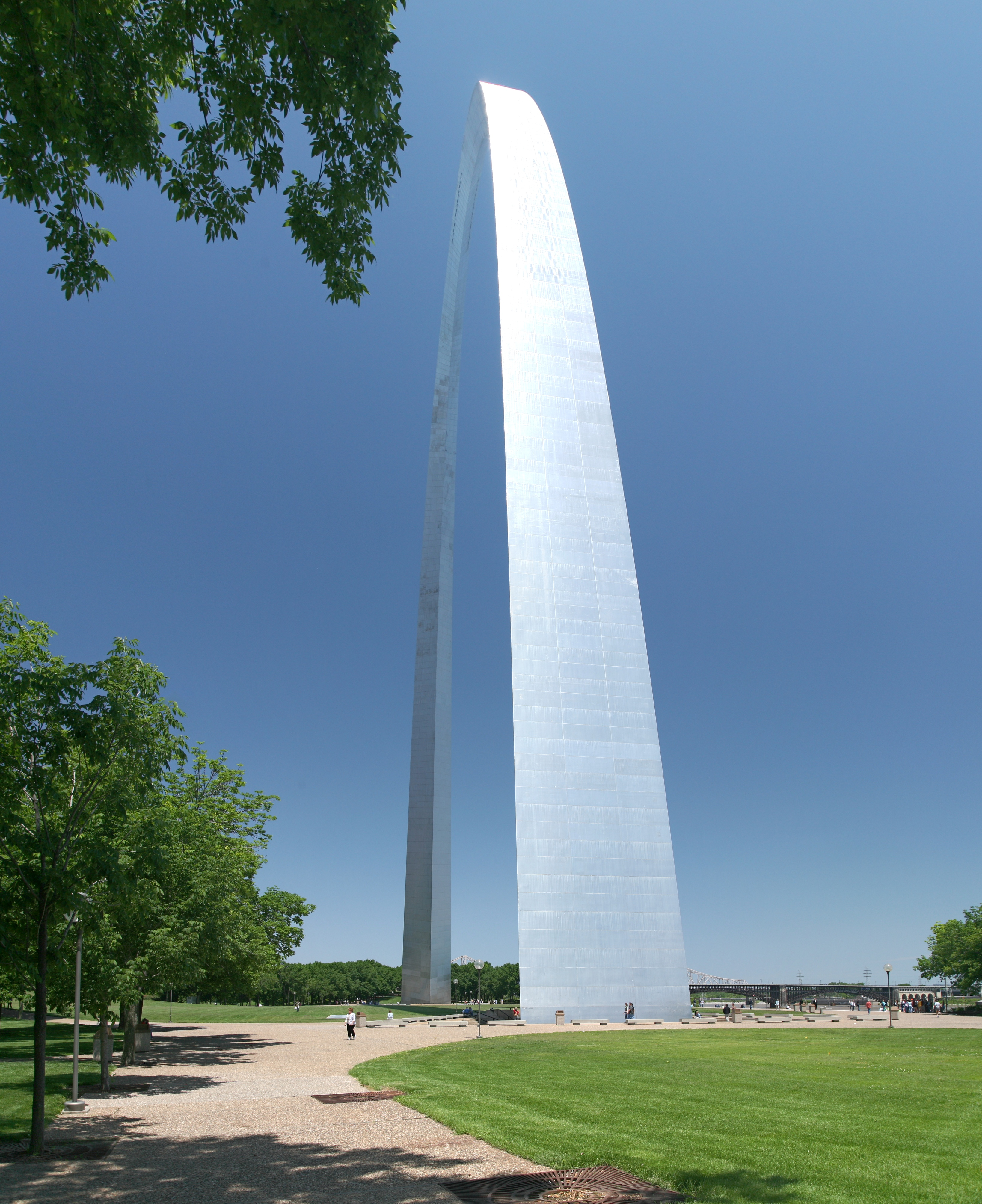 Gateway Arch in St. Louis, MO This image was created with Hugin